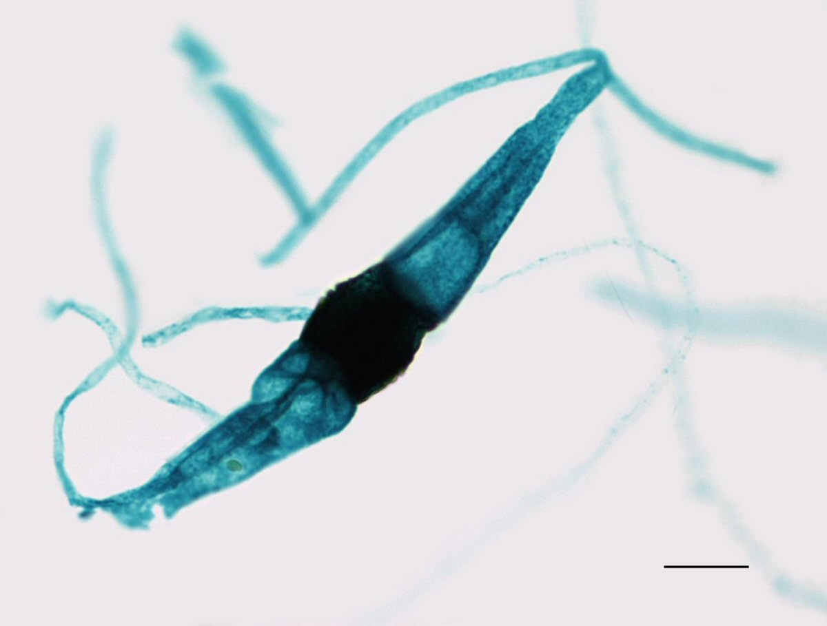 Light microscopy of Rhizopus with an immature zygosporangium. Scale bar = 0.1mm.